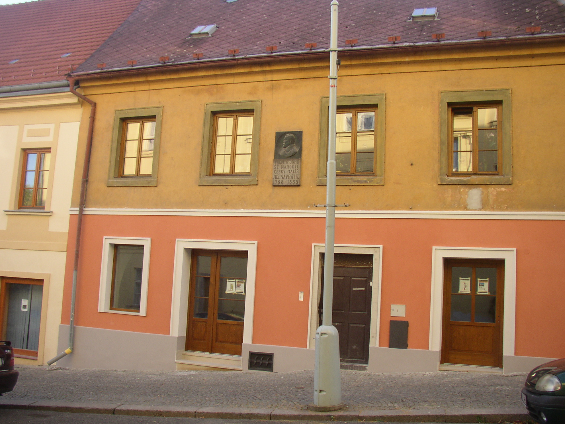 House No 12, Vinařického Str., in Slaný, Kladno District, Central Bohemian Region, Czech Republic. Painter Josef Navrátil (1798-1865) was born here.